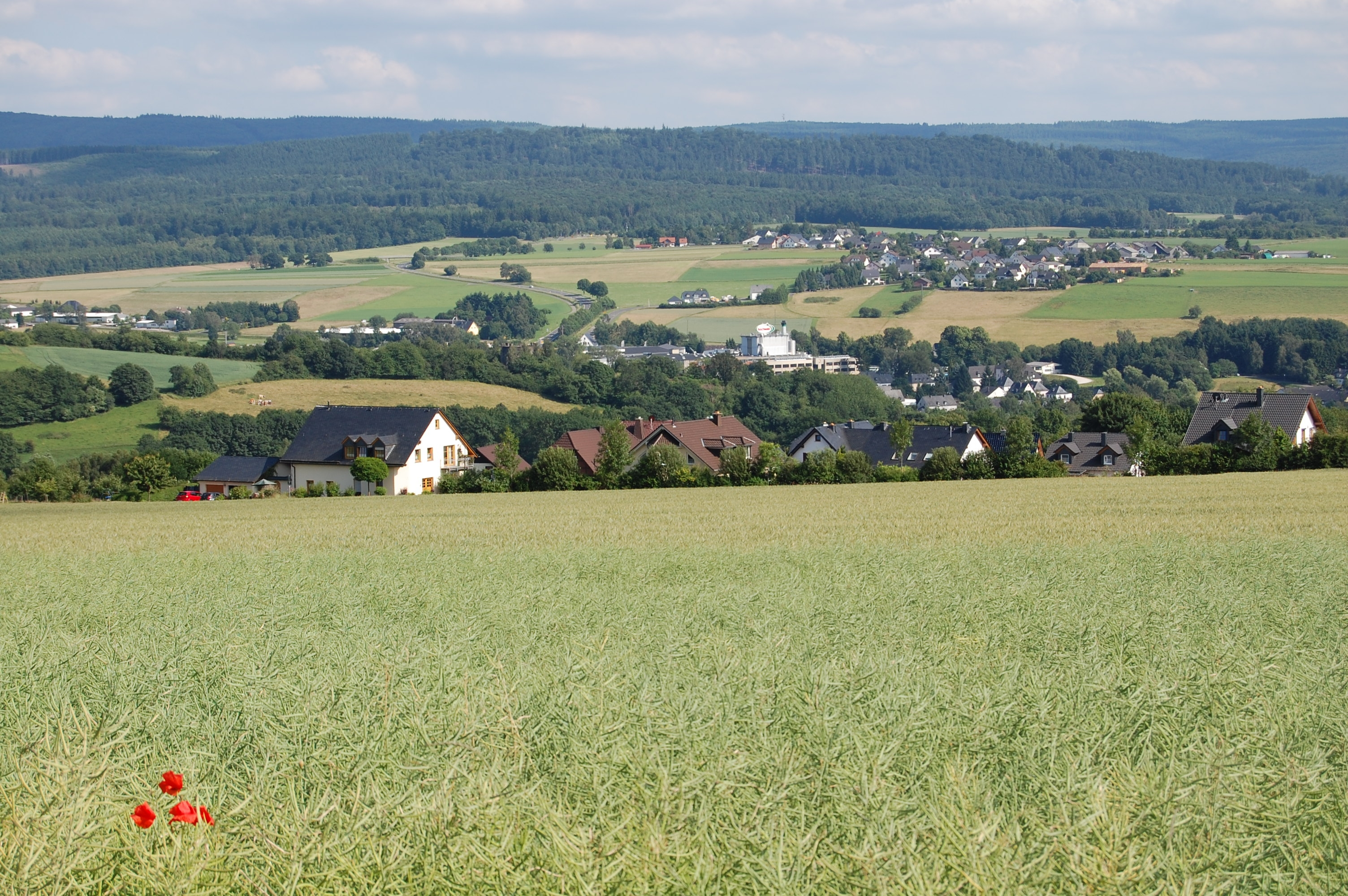 Villages Thalfang and Bäsch in the Hunsrück landscape, Germany